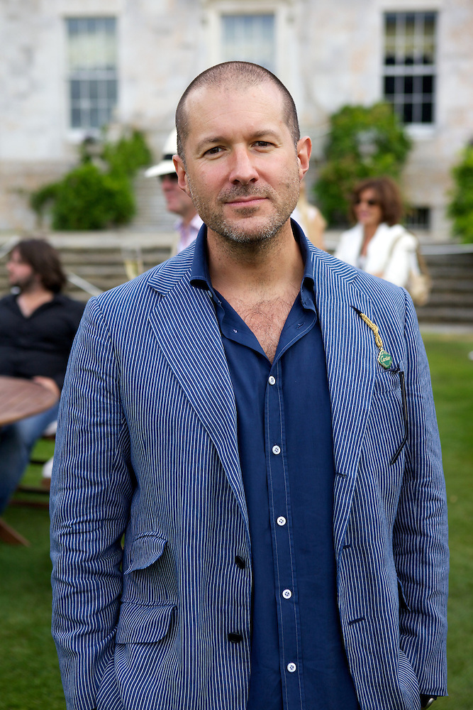 Sir Jonathan Paul Ive, senior vice president of industrial design at Apple Inc at The 2010 Goodwood Festival of Speed Cartier Style et Luxe party.